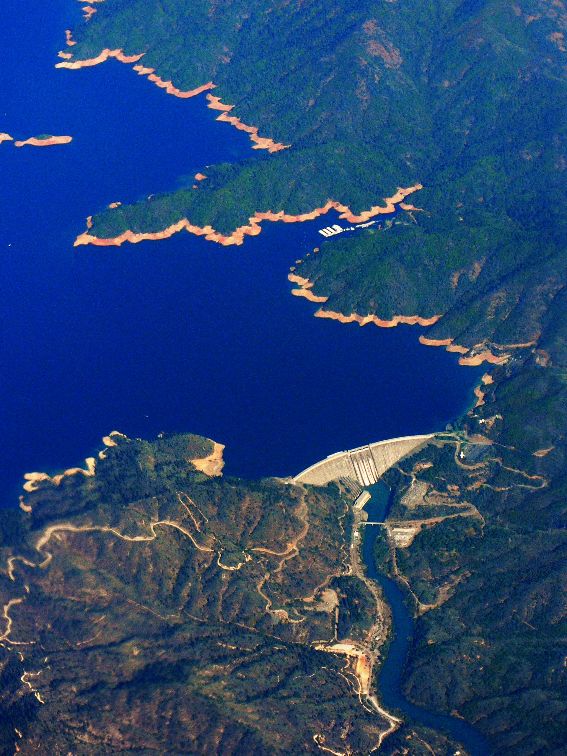 The Shasta Dam seen from the southwest, with Shasta Lake visible behind the dam. Copyright © 2006 Mai-Linh Doan